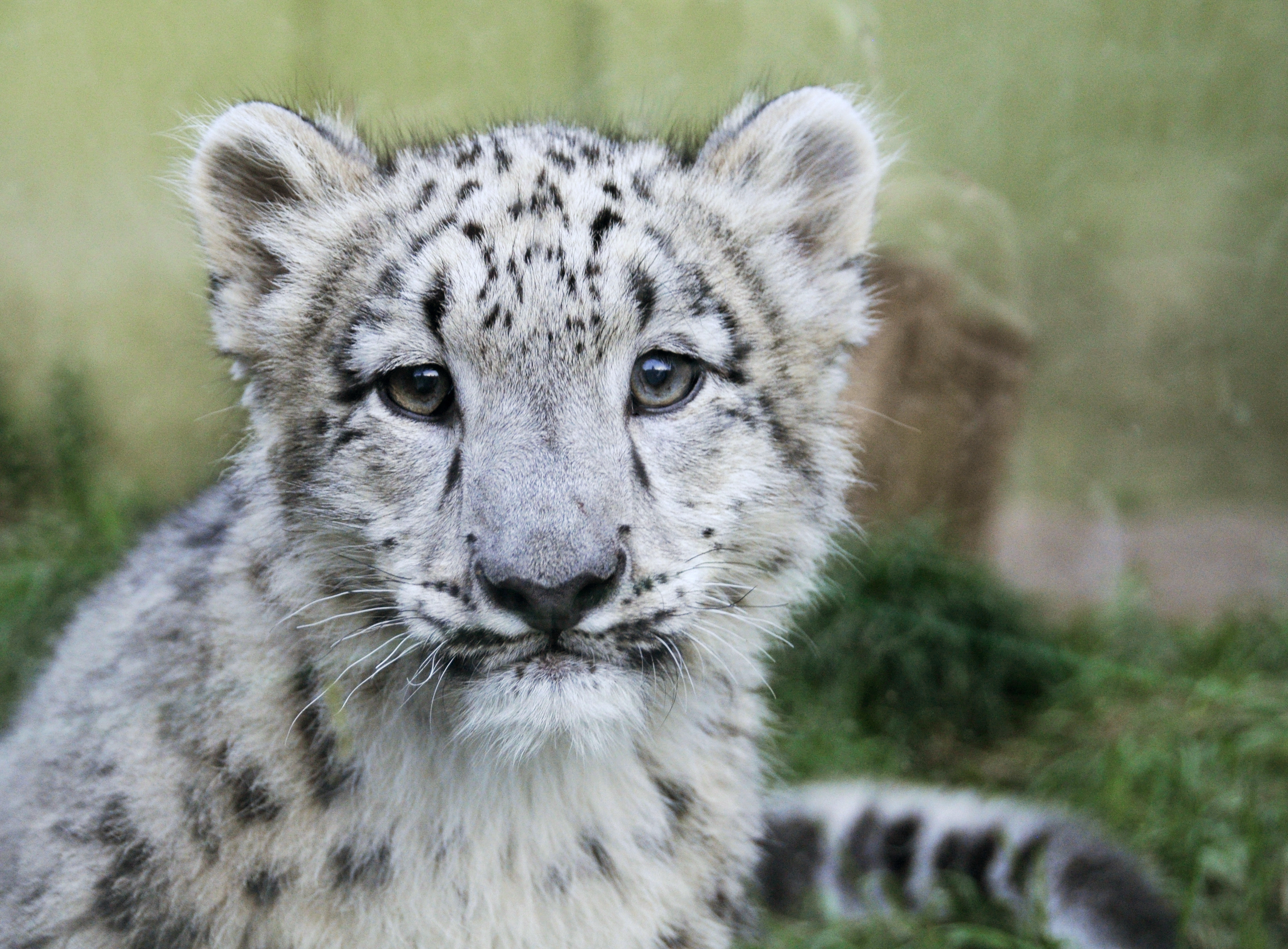 Snow leopard looks sad